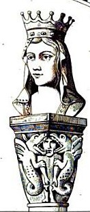 Adelaide of Maurienne